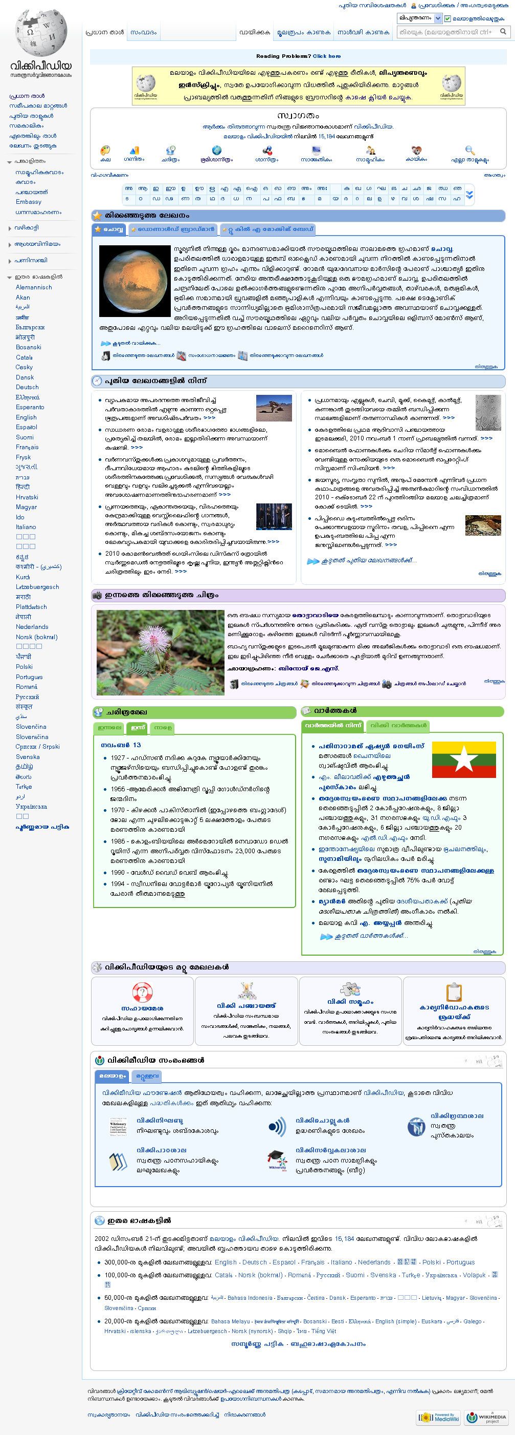 Malayalam Wikipedia Main page